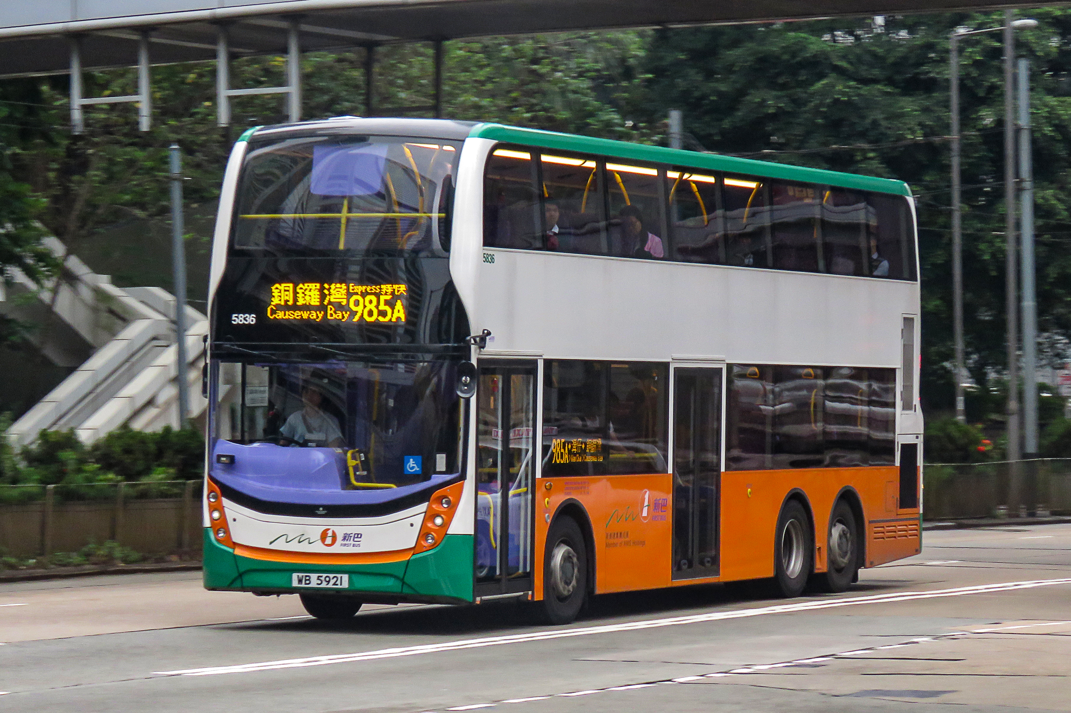 Poor lighting for 985A.